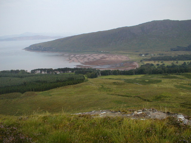 Applecross Bay.